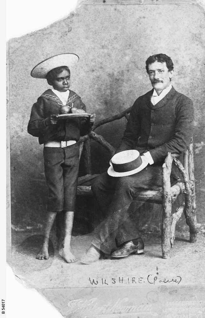 Constable Willshire, unpopular because of his ill treatment of the Aboriginal people - B-54017